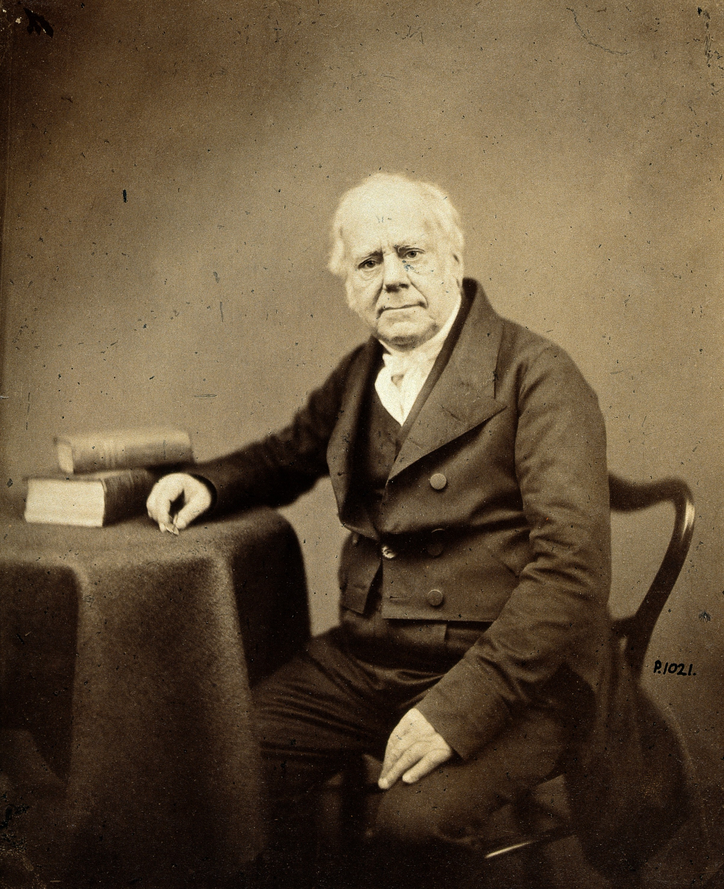 William Yarrell. Photograph by Maull & Polyblank. Iconographic Collections Keywords: portrait photographs